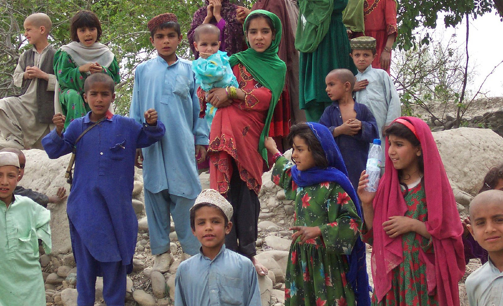 Afghan children in Khost Province